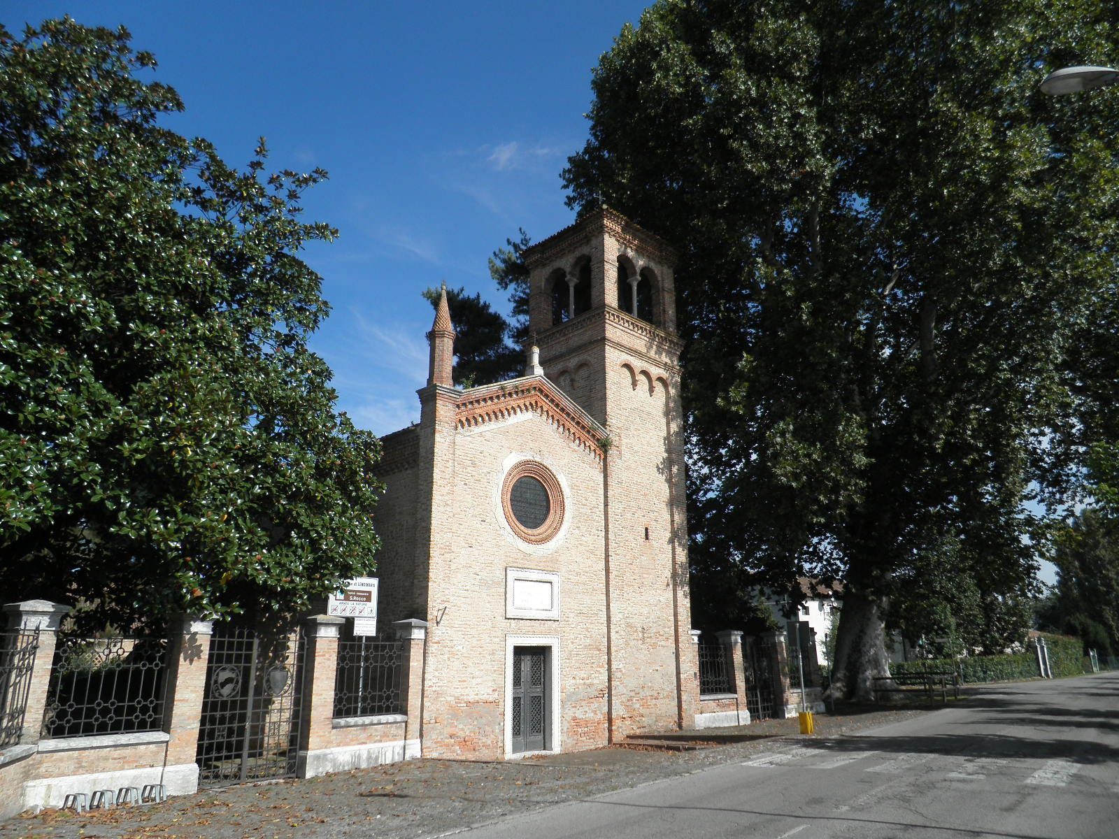 This is the Church of Saint Roch in Lendinara in the province of Rovigo in the region of Veneto in Italy. This is a war grave for the soldiers died in the World War I.